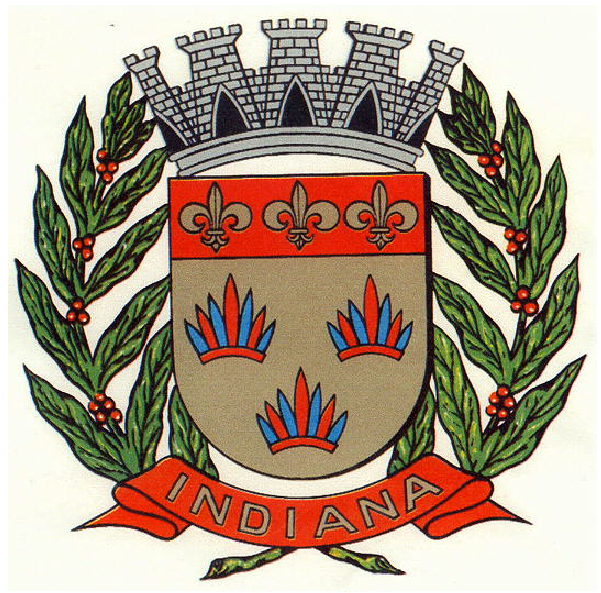 Coat of Arms of the city of Restinga, São Paulo state, Brazil. From the municipal website. Emerson